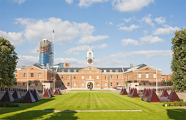 Vulcan Building, Gunwharf Quays, Portsmouth Built in 1814 as a naval storehouse, the clock tower and north wing were burnt out in the blitz of 1941. It then lay vacant for fity years until restored by Berkeley Festival Waterfront Company as part of the Portsmouth Harbour Millennium Project. It is now partly residential and partly a public building the use of which is not yet fully decided. The blue building behind, just going up, is Number 1 Gunwharf Quays which, although nice enough in itself, rather spoils the outline of the Vulcan building.